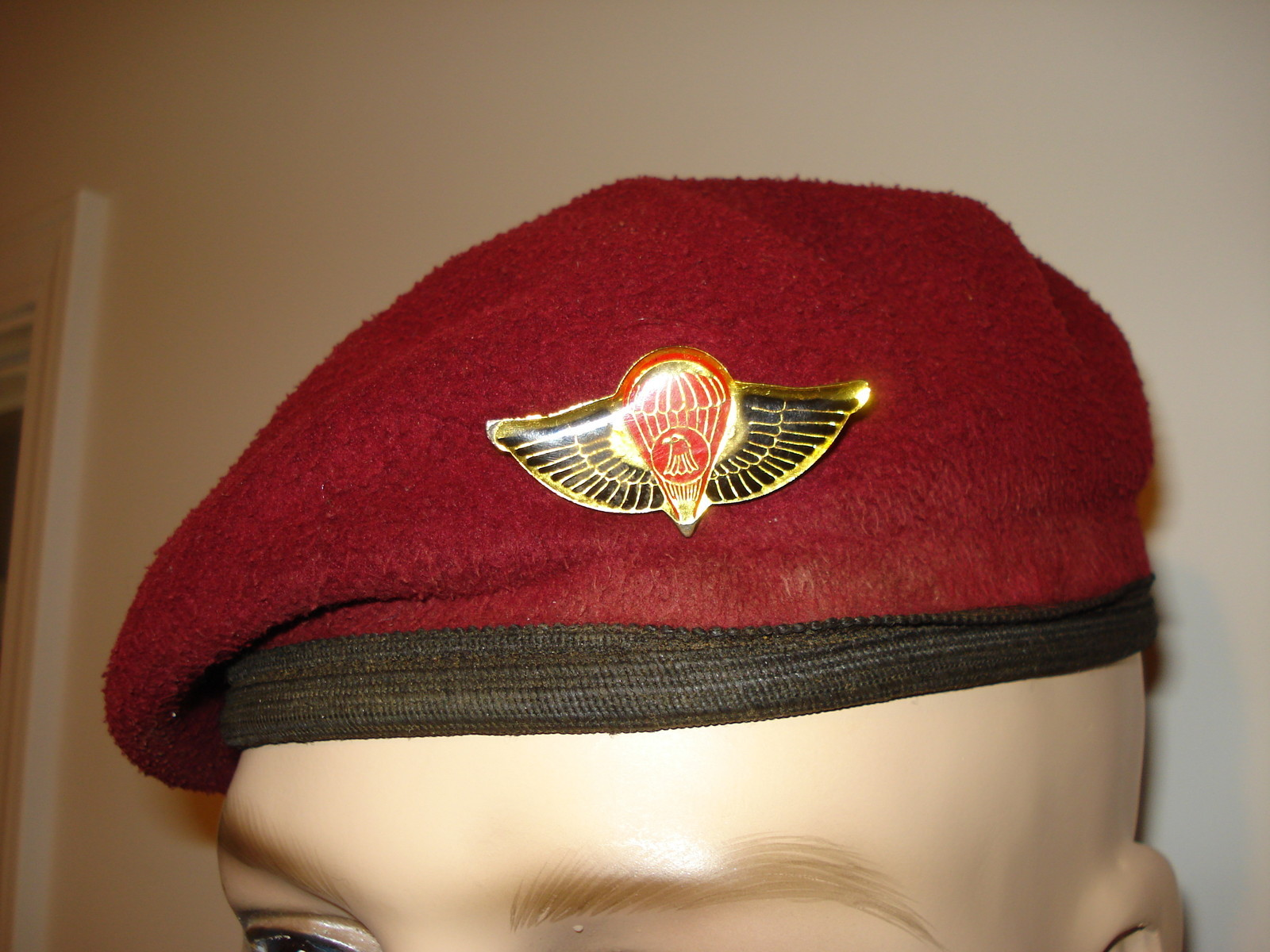 this is the beret used in Iraqi army